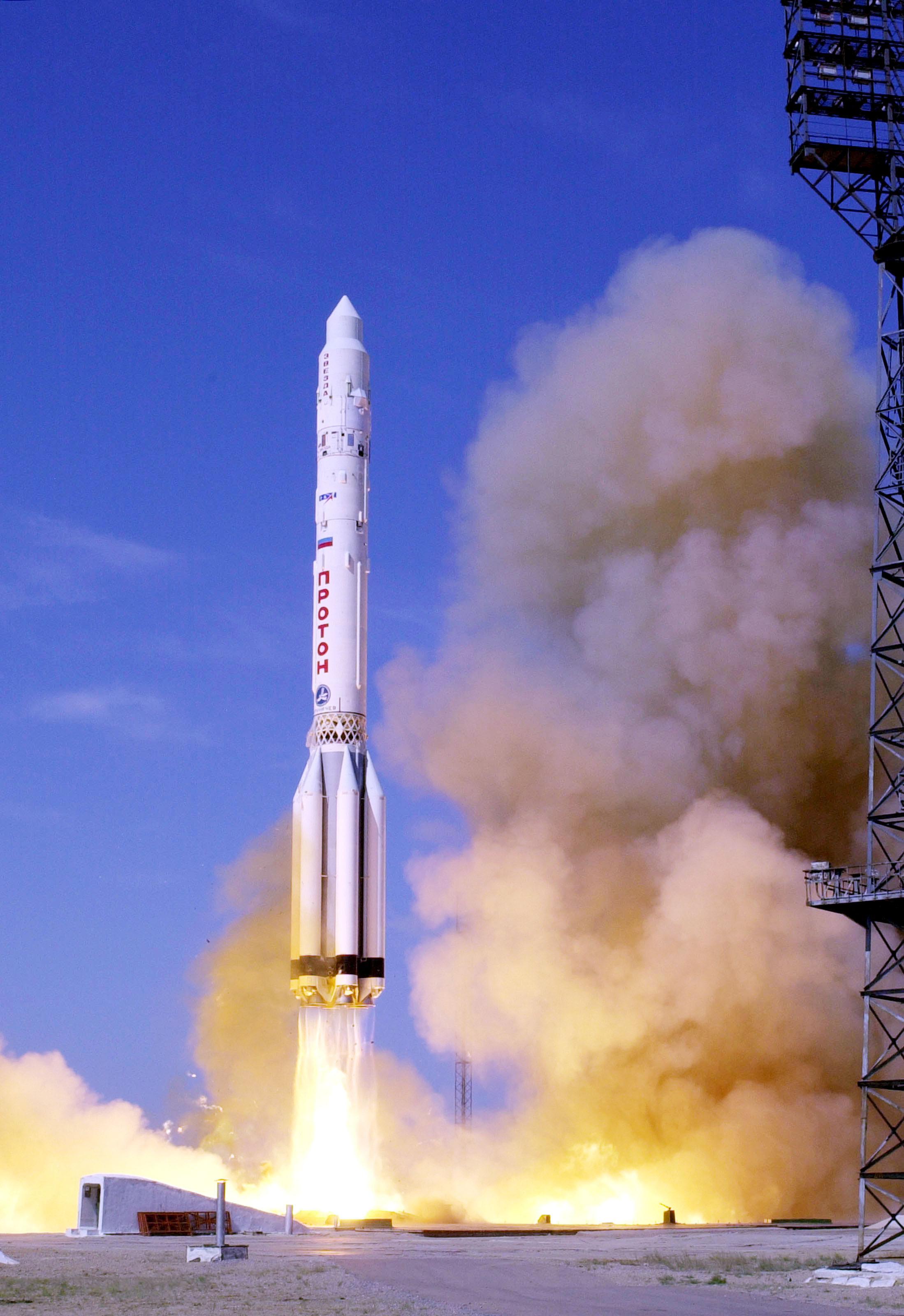 The Russian Proton rocket is the tallest rocket in routine use. First deployed in 1965, the rocket stands typically 40 meters tall, can carry unusually heavy payloads into space, and maintains a high record of reliability, being configured to launch satellites into orbit, to carry modules to space stations, and to carry people. Previous Proton payloads include include Iridium, GRANAT, Mir modules and others. The Proton frequently launched modules that docked with the Mir Space Station. Pictured above on 12 July 2000, a Proton-K rocket launches the Zvezda service module which became the third major component to be added to the International Space Station. The Proton is launched from the Baikonur Cosmodrome in Kazakstan.